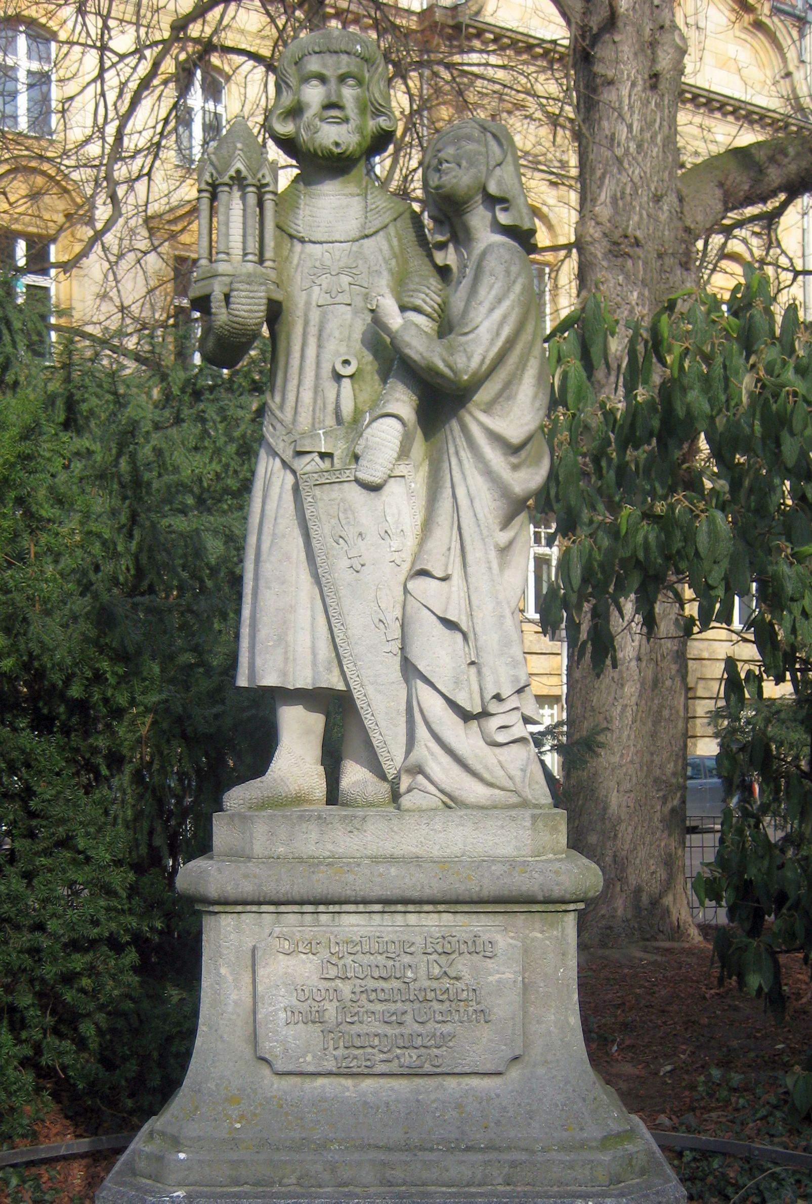 statue of King Louis IX of France and Queen Marguerite on Ludwigkirchplatz in Berlin-Wilmersdorf